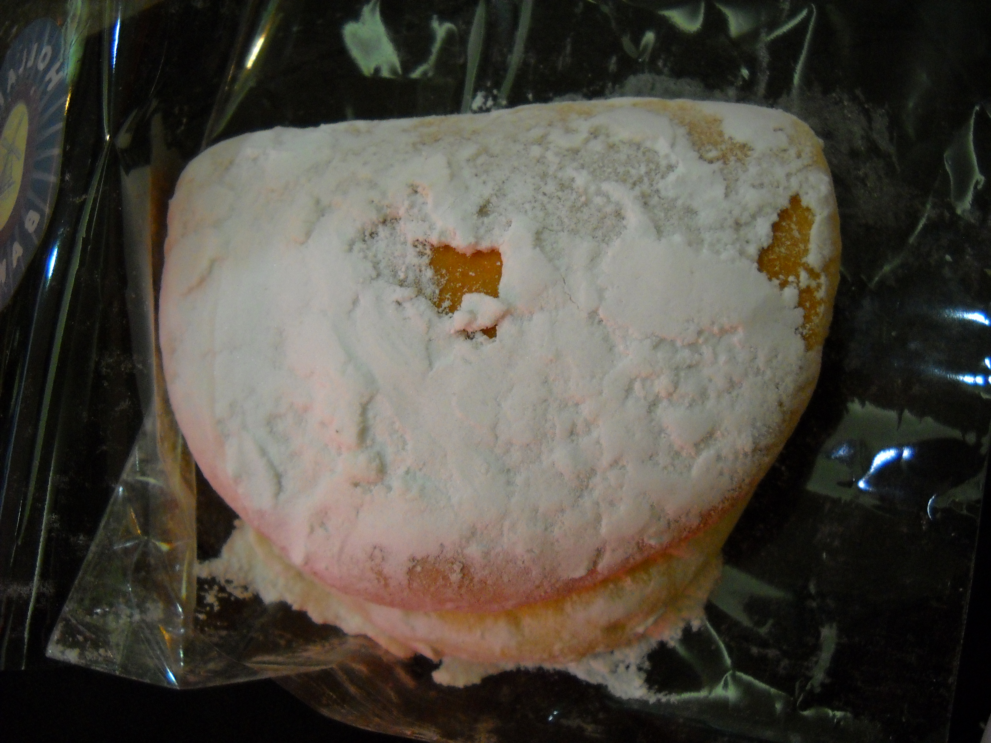 Roombrodje, Dutch bread with rum cream inside, then sprinkled with sugar powder. This broodje is bought from Holland Bakery in Jakarta, Indonesia.